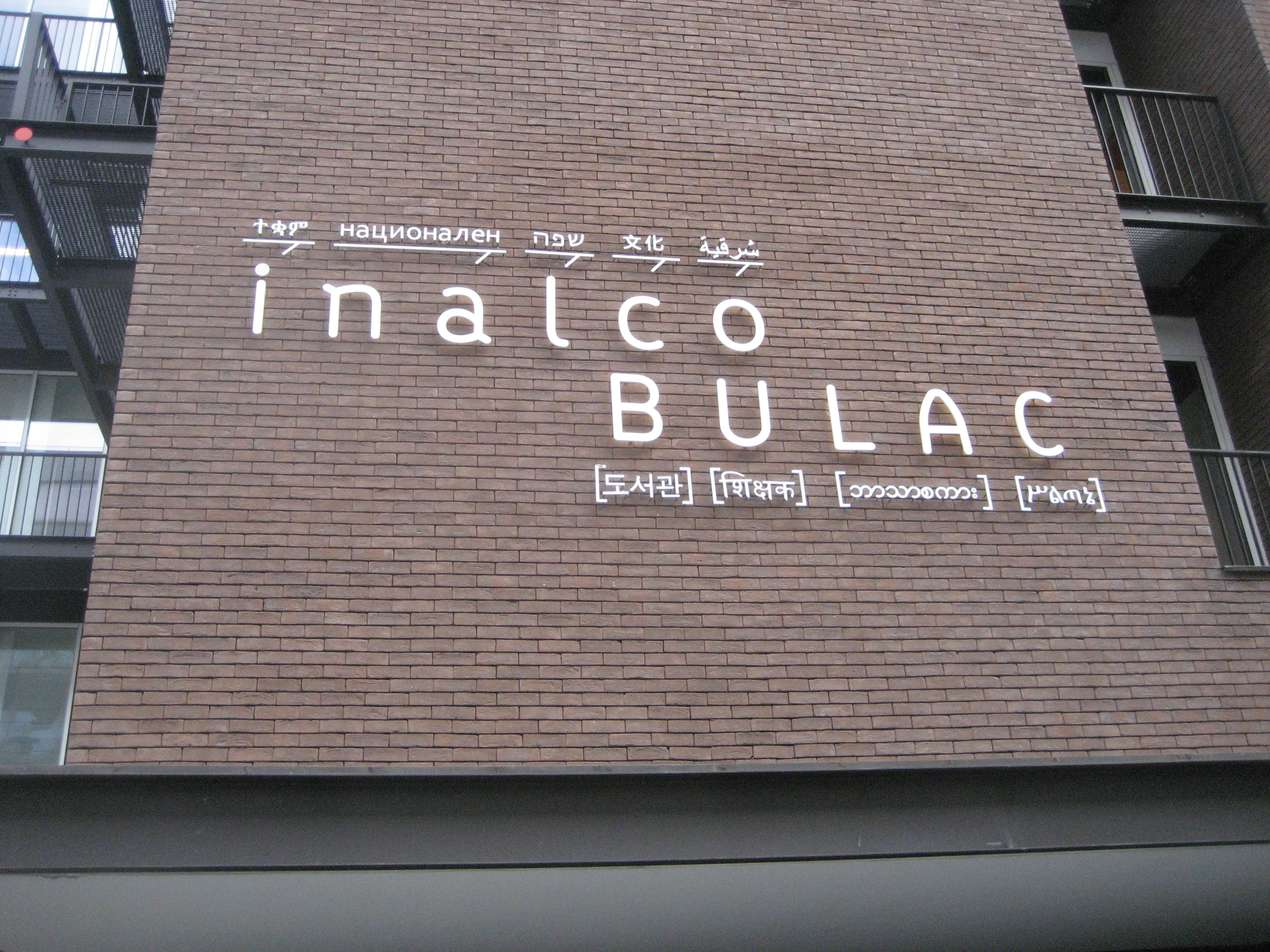 inalco / BULAC, Rue des Grands Moulins, Paris (Fr.)